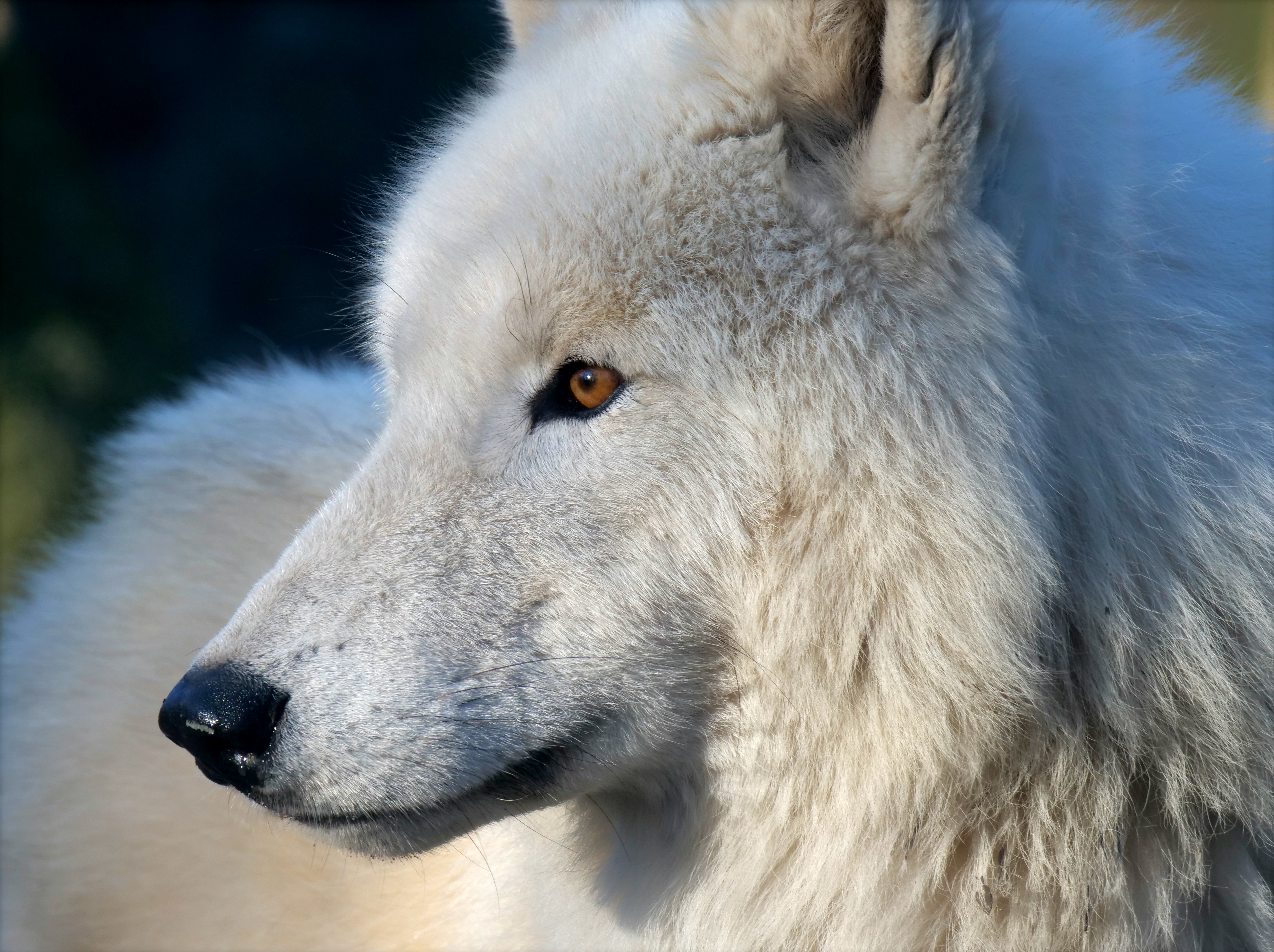 white wolf